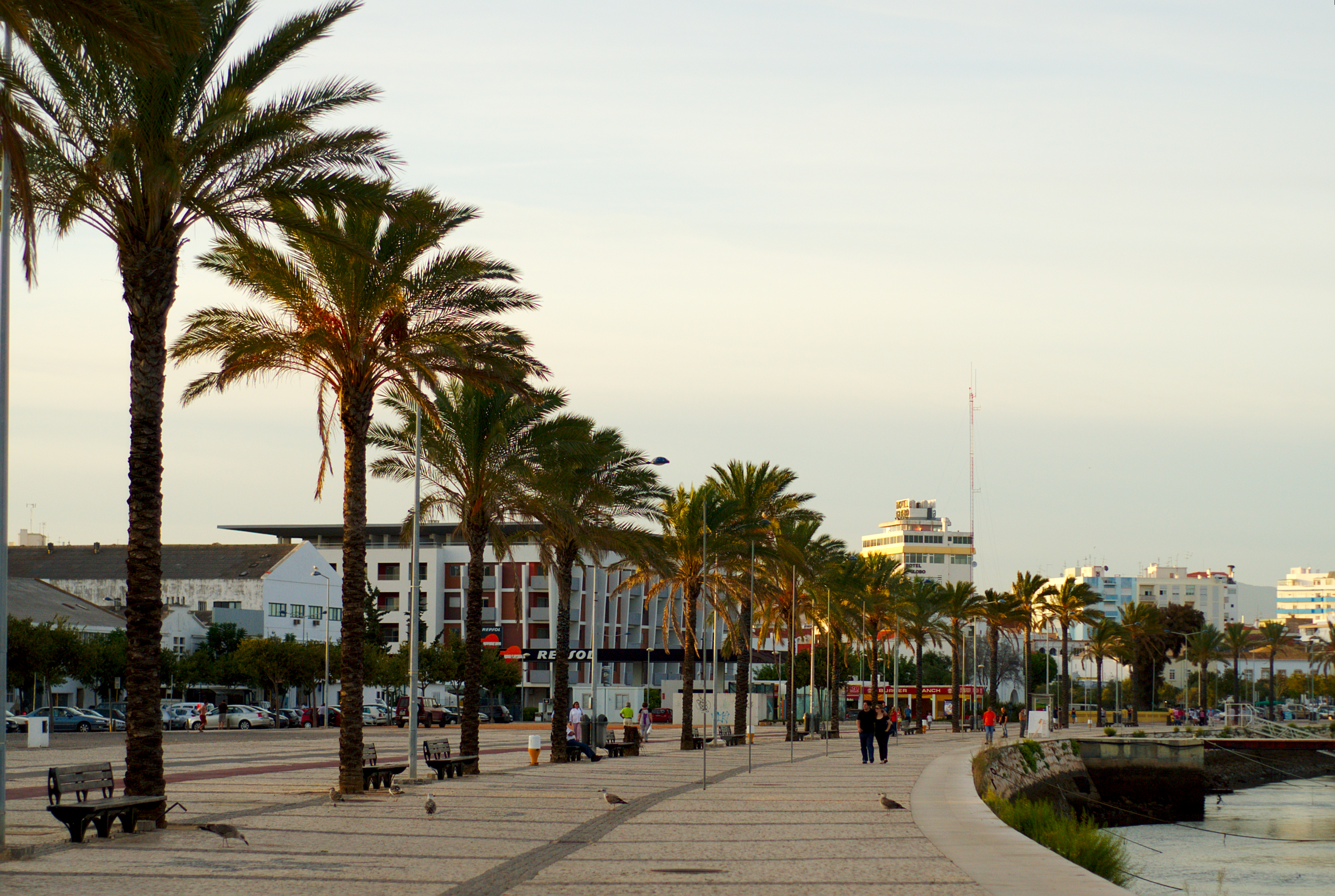 The pedestrianized waterfront, Avenida Capitão João Fernandes Leão Pacheco, Portimão, Algarve, Portugal.